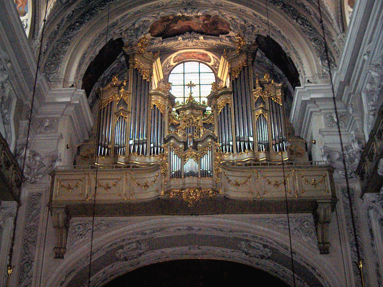 Late Baroque organ of the Dominikanerkirche, Vienna, Austria